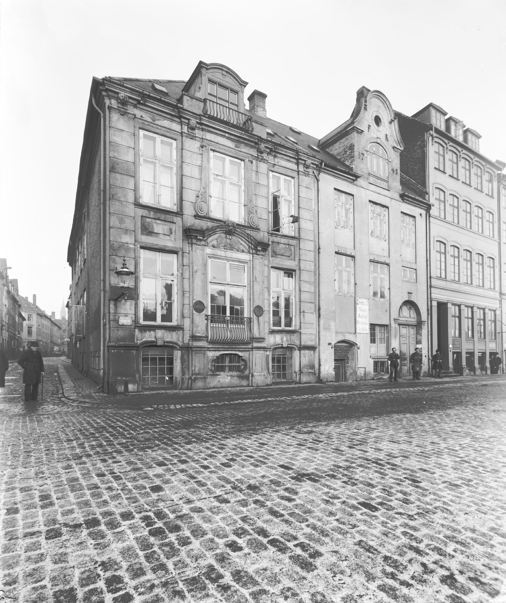 Hofkonditor Zieglers Gård in Copenhagen, Denmark